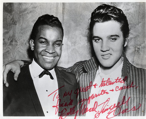 Billy Ward and Elvis Presley